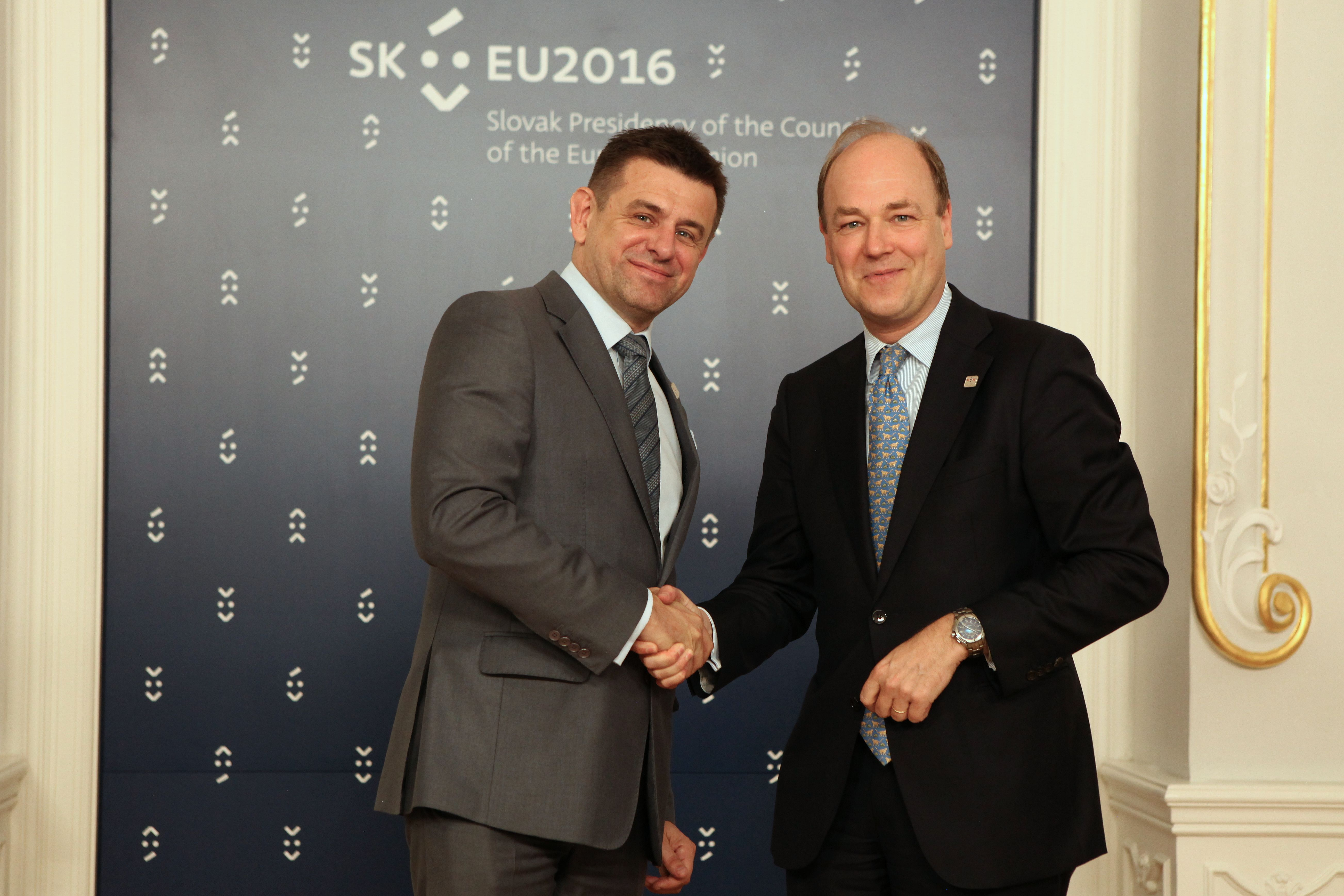 Slovakia, Mr. László Sólymos, Minister of Environment (L), Belgium, Mr. Willem Albert Gerard Van de Voorde Ambassador (R) Informal Meeting of Environment and Climate Change Ministers Photo: Andrej Klizan